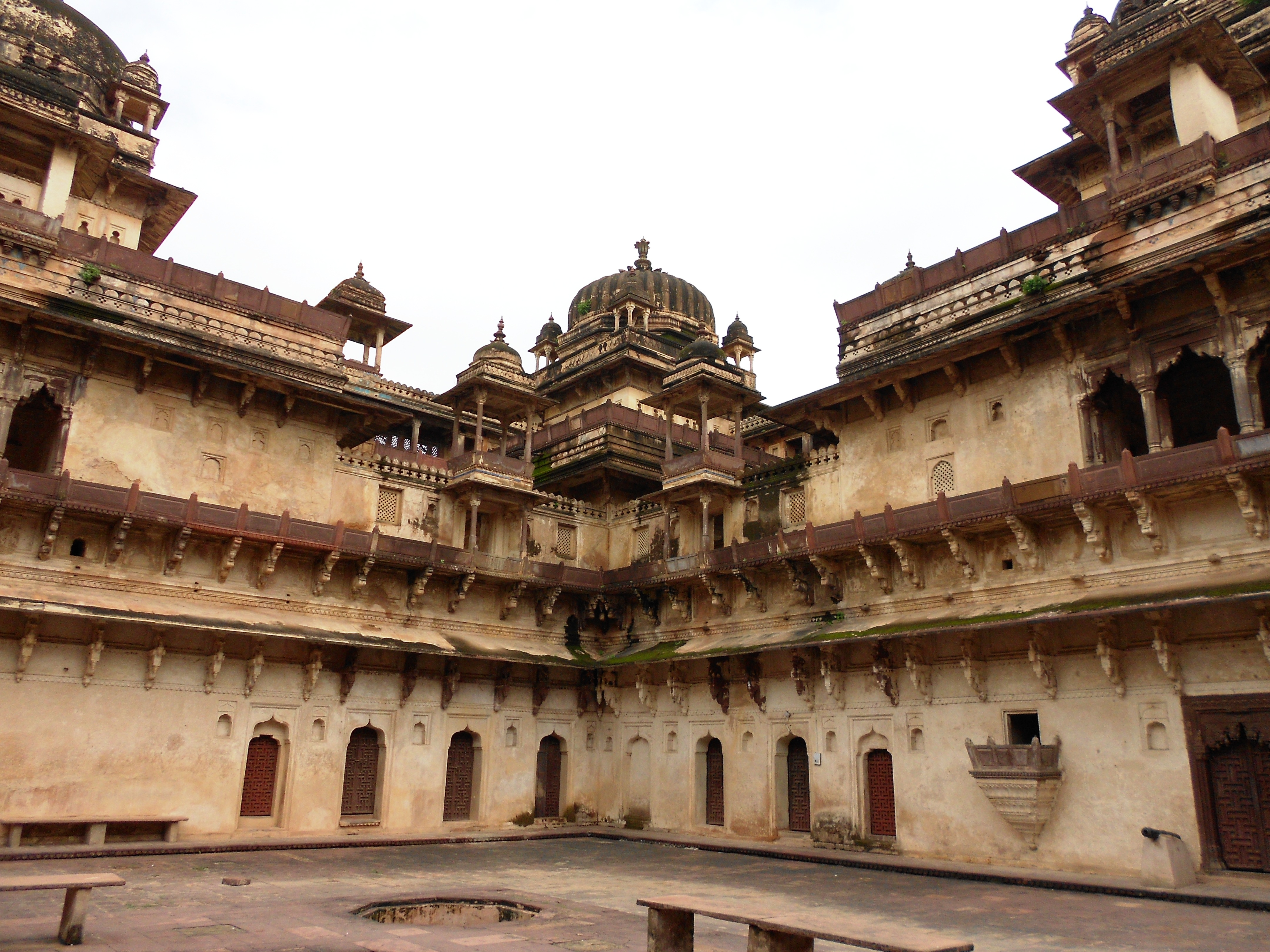 Jahangir Mahal, Orcha, District- Tikamgadh (Madhya Pradesh)